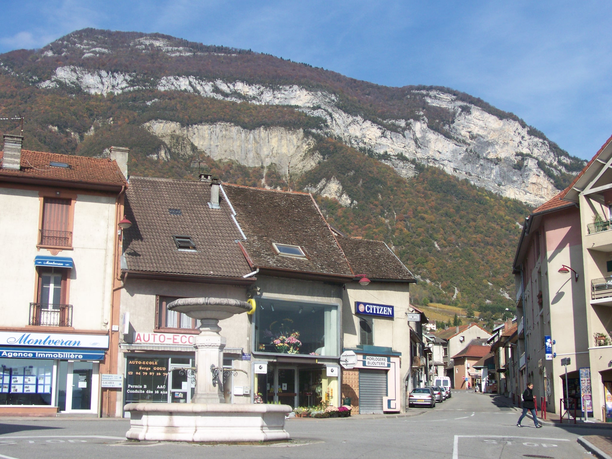 French commune Culoz city center in Ain.